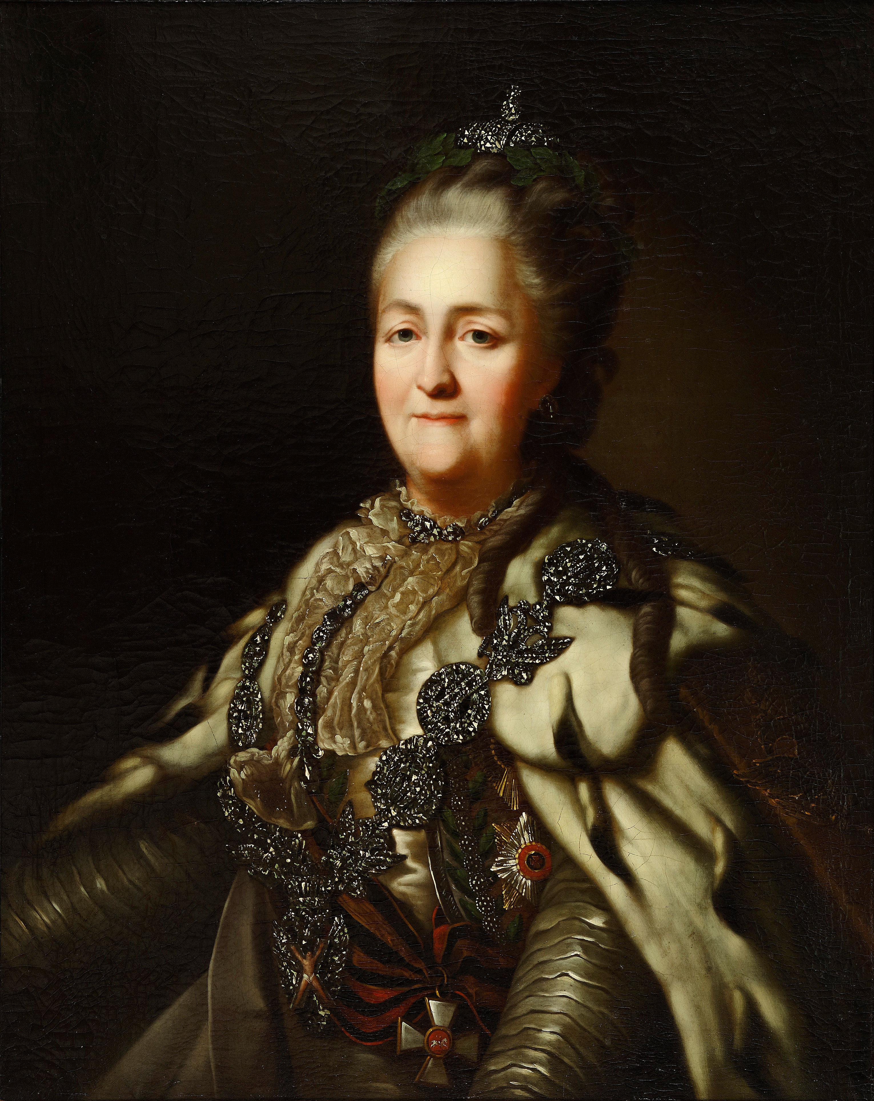 Portrait of Catherine II (1729-1796), Russian empress